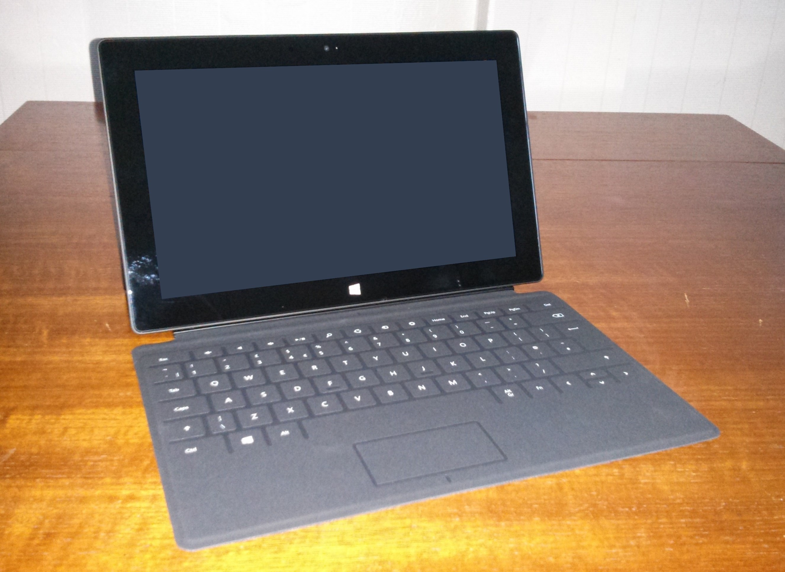 A Surface RT with TouchCover.